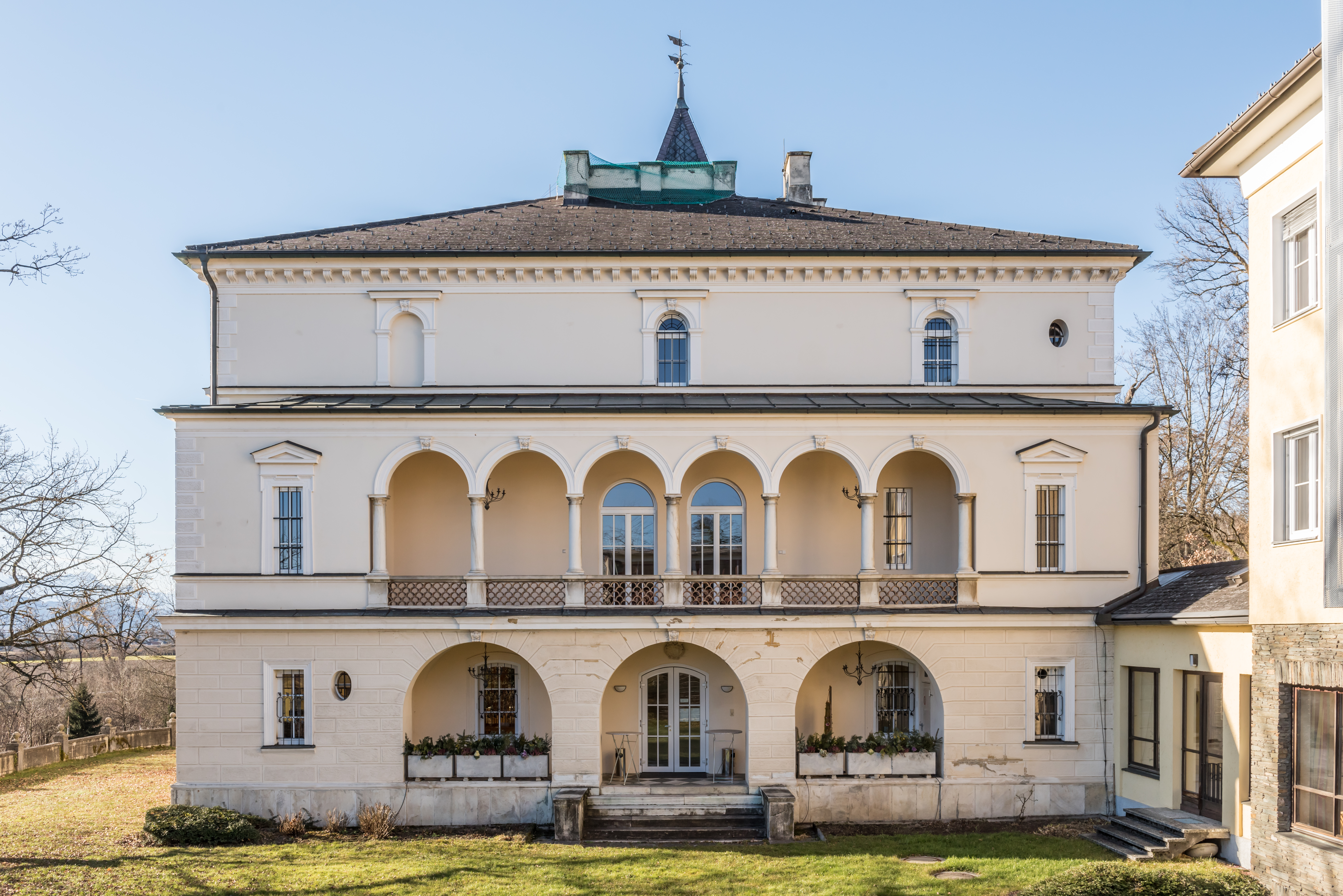 Eastern view of castle Krastowitz, Krastowitz #1, 10th district «Sankt Peter», municipality Klagenfurt, Carinthia, Austria, EU